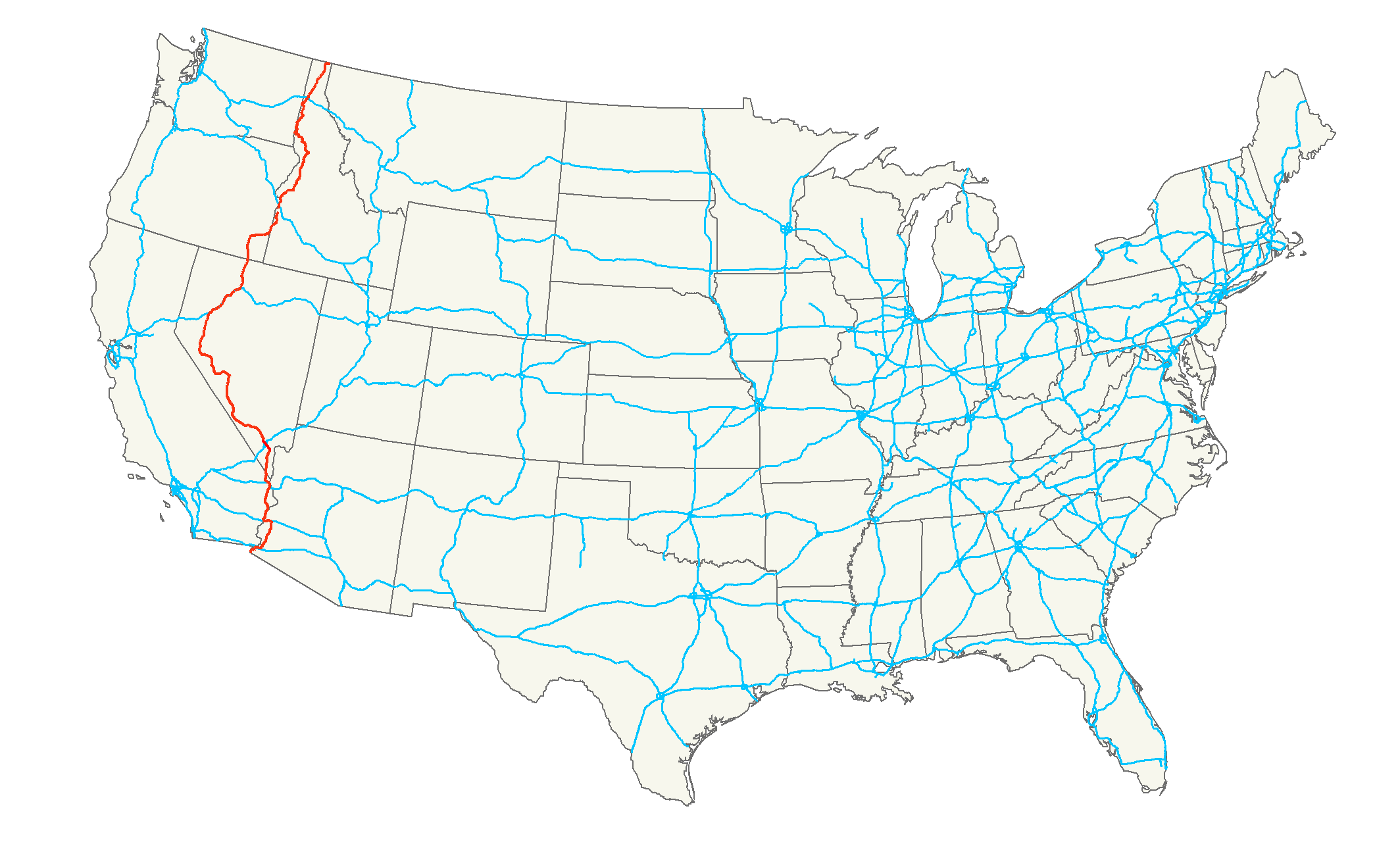 Map of U.S. Route 95